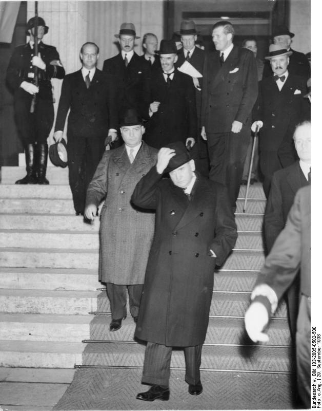 Mr. Chamberlain and M. Daladier after signing of Munich agreement. These pictures were taken as Herr Hitler, Signor Mussolini, Mr. Chamberlain and M. Daladier left Fuhrer´s House, Munich, in the early hours of the morning after the signing of the agreement settling the German-Czechoslovak dispute and ensuring the preservation of world peace. Photo shows: M. Daladier and Mr. Neville Chamberlain (following) leaving Fuhrer´s House after the signing of the agreement. and September 30th 1938 Planet News / Scherl Bilderdienst 12913-38